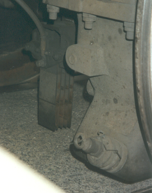 Train protection "Crocodile" brush on Alstom PRIMA 6000 (or diesel PRIMA?) - Innotrans Berlin 2006